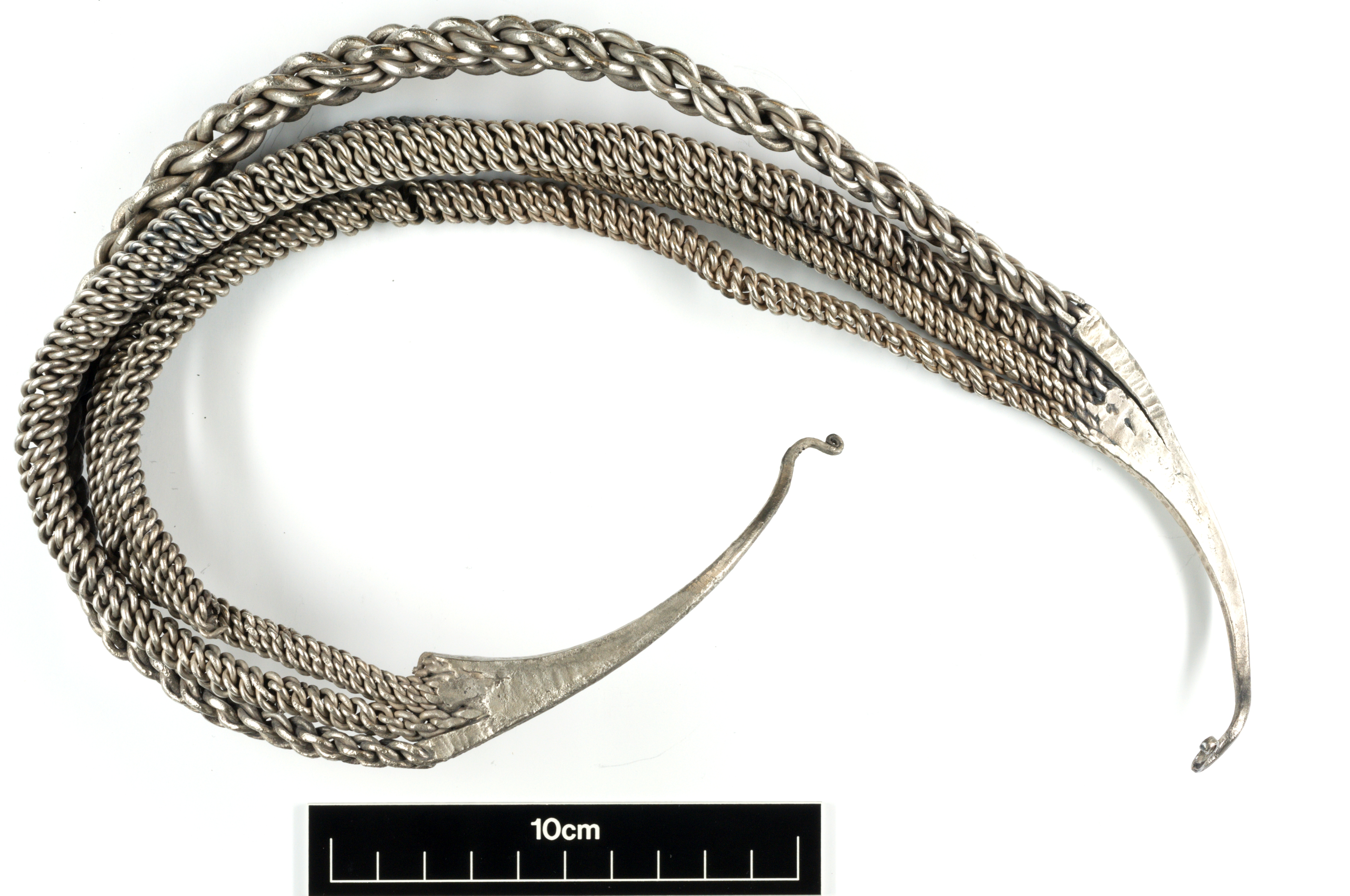 Large silver necklace; four individual twisted able strands hammer-welded together into flattened terminals of rectangular section. An s-shaped hook with a scrolled tip is evident at either terminal. The outermost cable consists of six thick, plaited rods and the inner three ‘hollow’ ropes each of three coiled strands of double-twisted rods with plaited ends. A 55mm length of the innermost rope is broken off next to the terminal. The form appears to represent a unique, ‘West Viking’ variant, although all its various components can be readily paralleled in Viking jewelry.